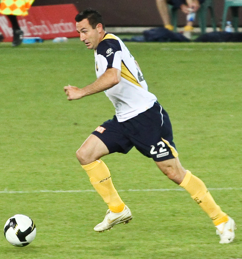 Sasho Petrovski playing for the Central Coast Mariners against Sydney FC in round 10 of the 08/09 A-League